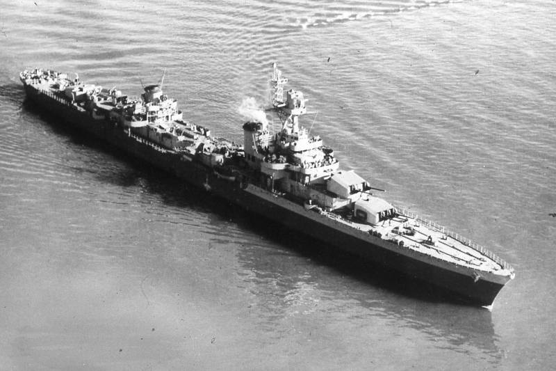 French cruiser Émile Bertin. U.S. Navy's recognition slide.